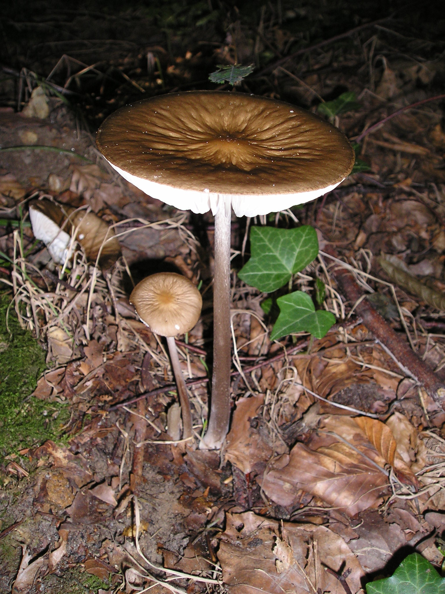 Hymenopellis radicata (= Xerula radicata = Oudemansiella radicata) in a French wood.